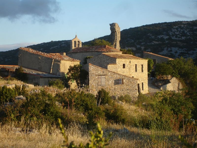 Hamlet of Perillos, Pyrénées-Orientales, France.